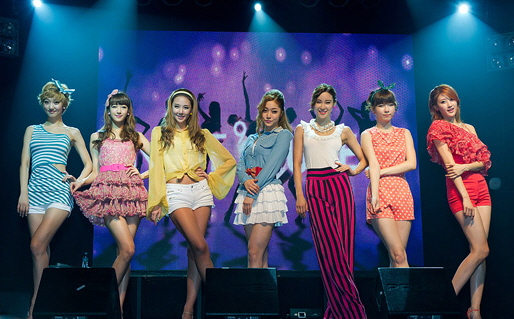 Nine Muses at Figaro (a song by Nine Muses from their 2012 album Sweet Rendezvous) showcase event, on August 19, 2011